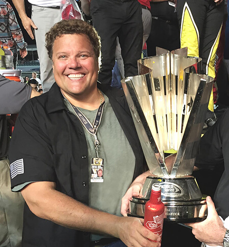 Following Kevin Harvick's win at the Ford EcoBoost 400, Jimmy John Liautaud, Harvick's sponsor as owner of Jimmy John's, holds the 2014 NASCAR Sprint Cup Championship.